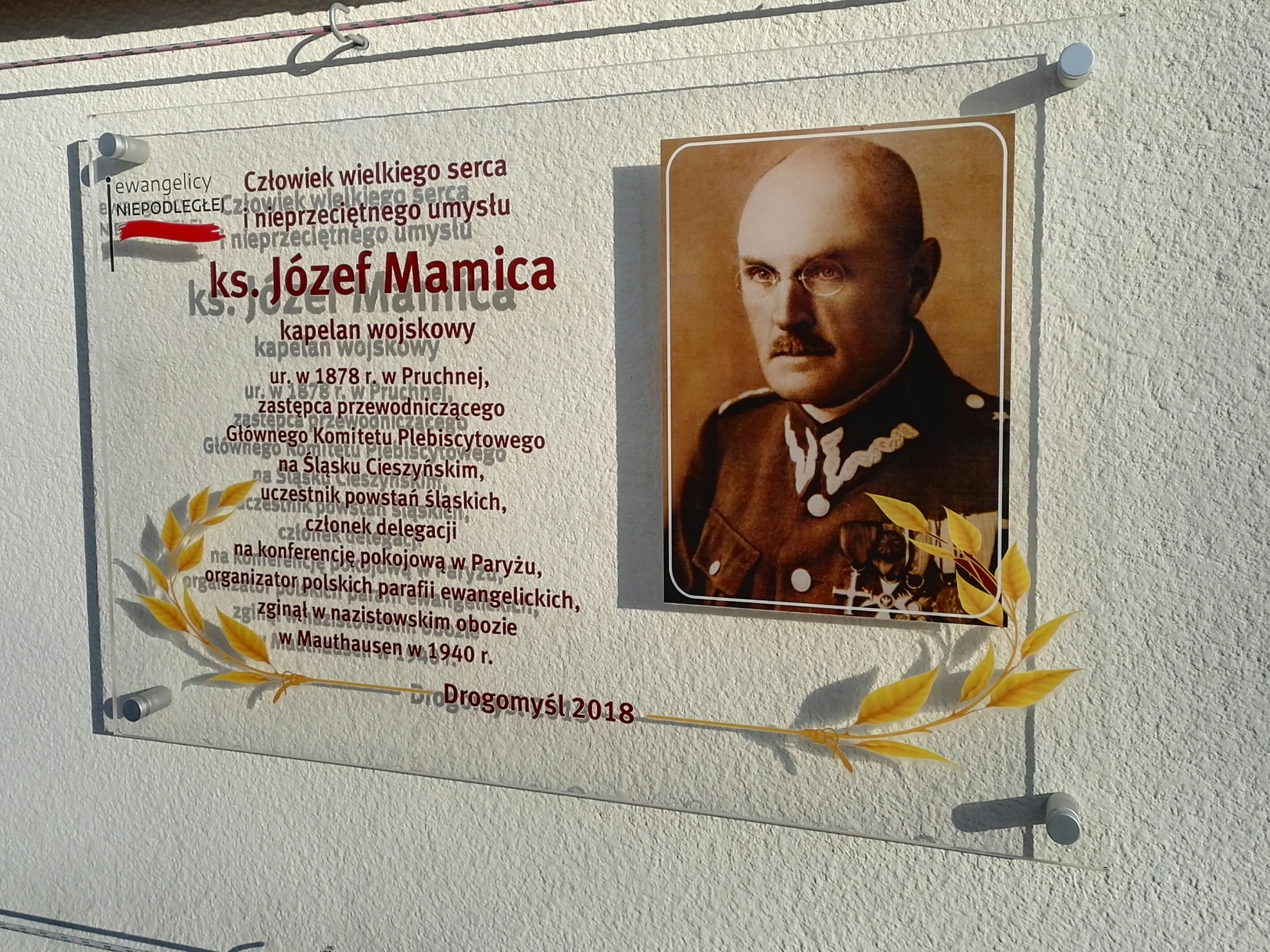 Drogomyśl (Drahomyšl, Drahomischl). Plaque to military chaplain Józef Mamica (1878–1940), unveiled in November 17th, 2018.